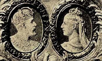 King Oscar II and Queen Sofia of Sweden in their crowns